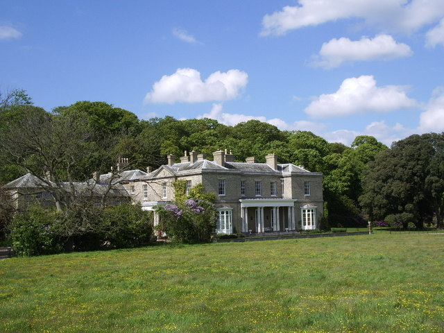 Sheringham Hall, a private residence; Sheringham Park, in which it stands, belongs to the National Trust